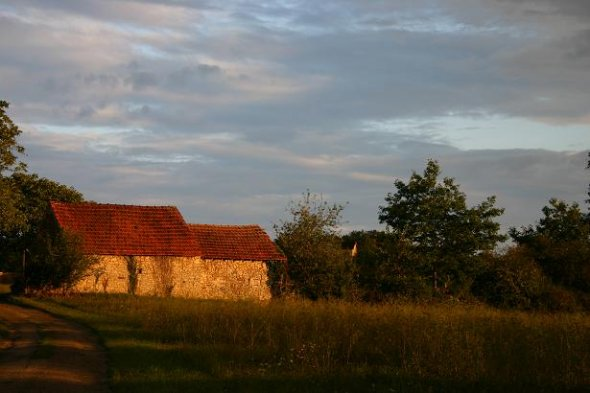 Village of Caminel, Lot Dep., France. Farmhouse.